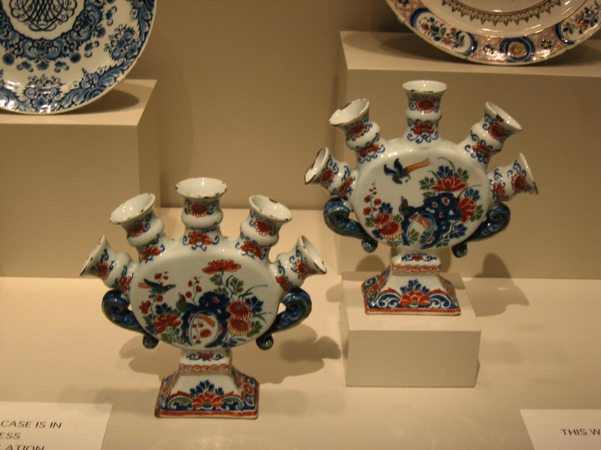 Pieces from the porcelain collection in the Art Institute of Chicago